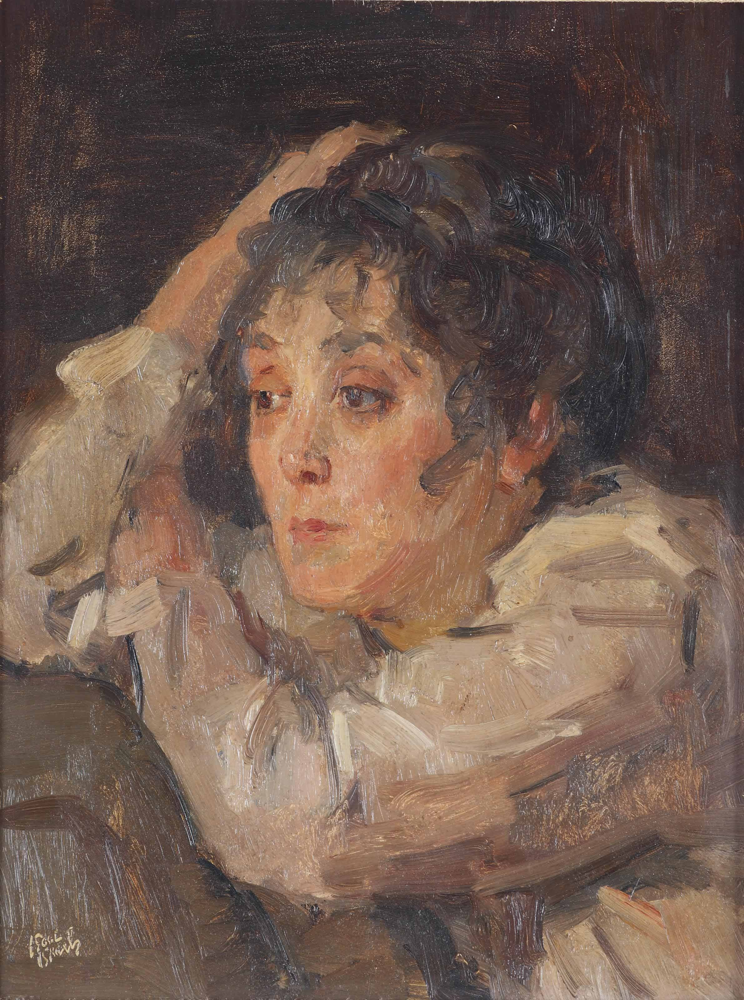 Nelly Bodenheim oil on panel 35.5 x 26.5 cm signed b.l.: Isaac / Israels circa 1920